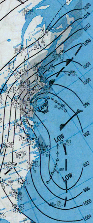 Description: Daily weather map for 24 December 1994 from Author: U. S. Department of Commerce Date: 24 December 1994